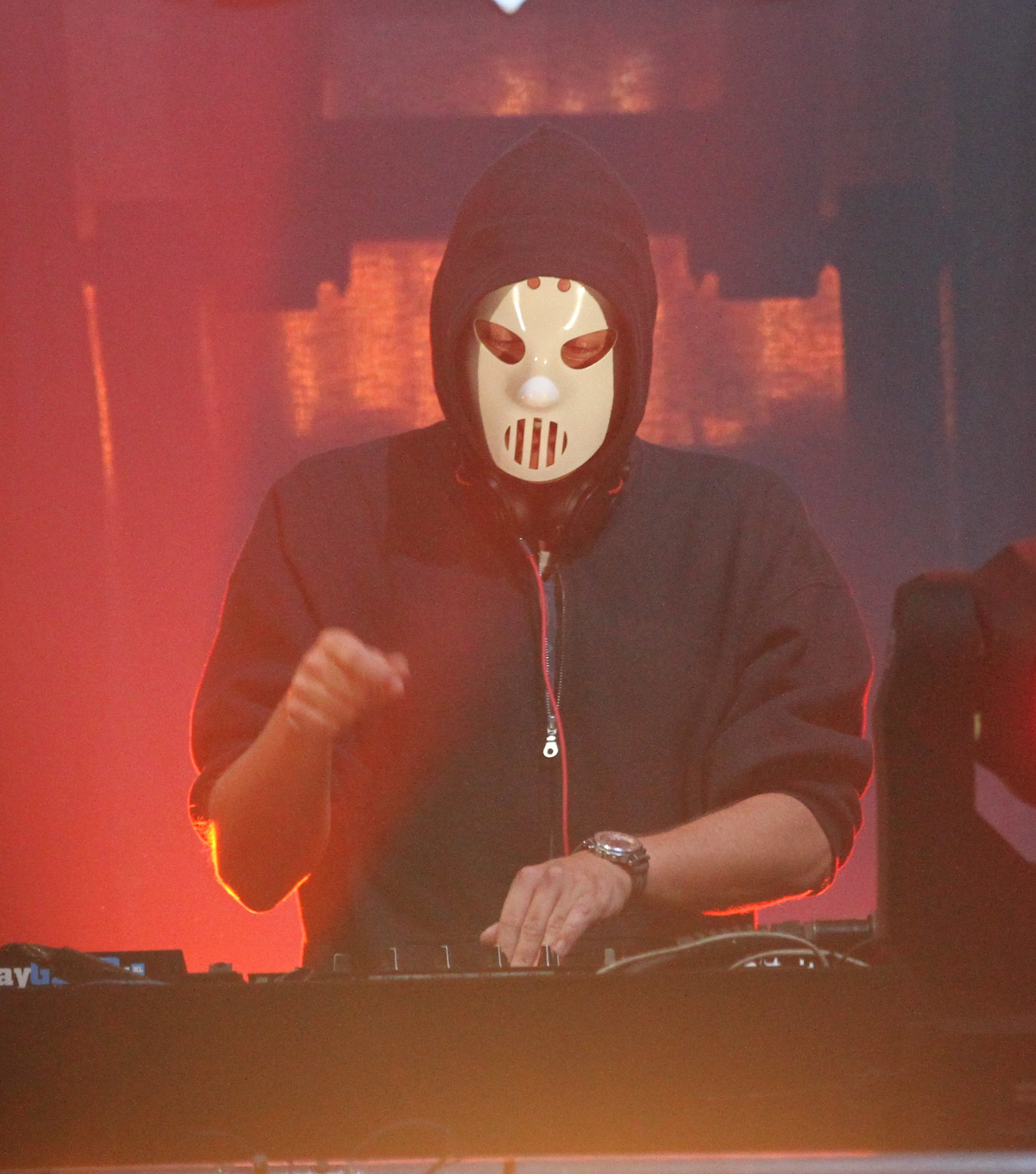 Angerfist live on stage at Syndicate 2013